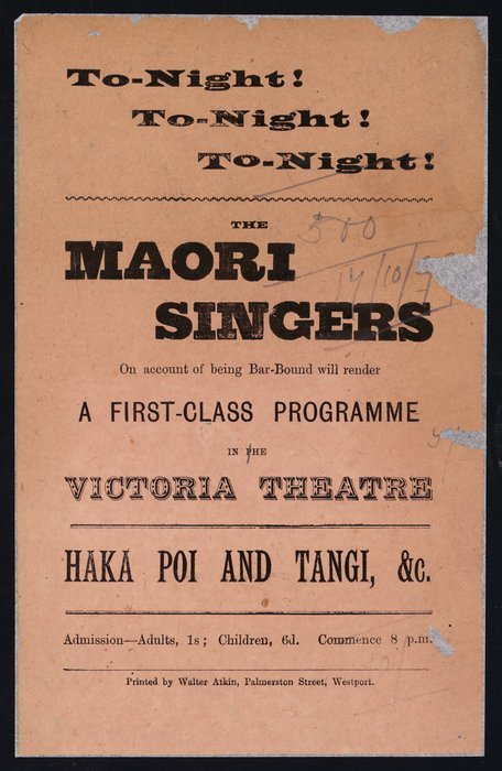 A concert Programme featuring māori music and dance: haka, poi and tangi.